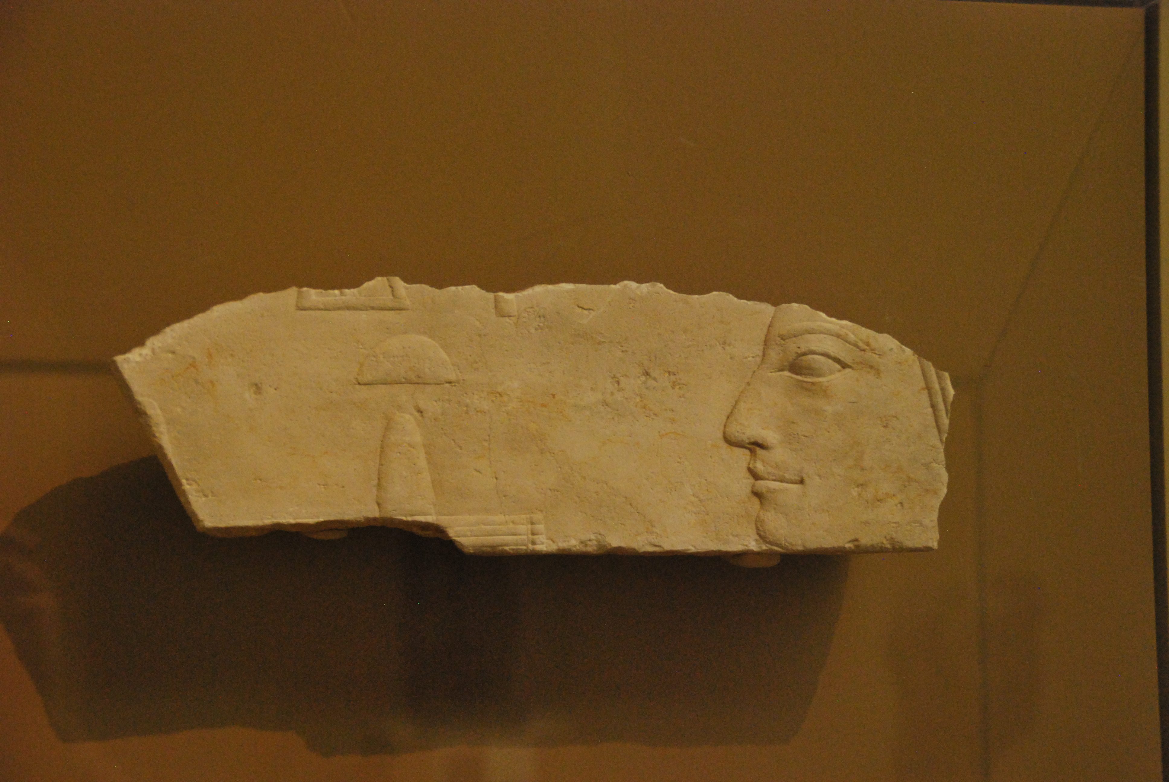 Limestone Relief of Hemiunu from Giza, tomb G 4000; Egyptian, Old Kingdom, Dynasty 4, reign of Khufu, 2551–2528 B.C.; Overall: 12.1 x 39.5 x 7cm (4 3/4 x 15 9/16 x 2 3/4in.); Accession Date: January 1, 1927, Accession Number: 27.296; Details.